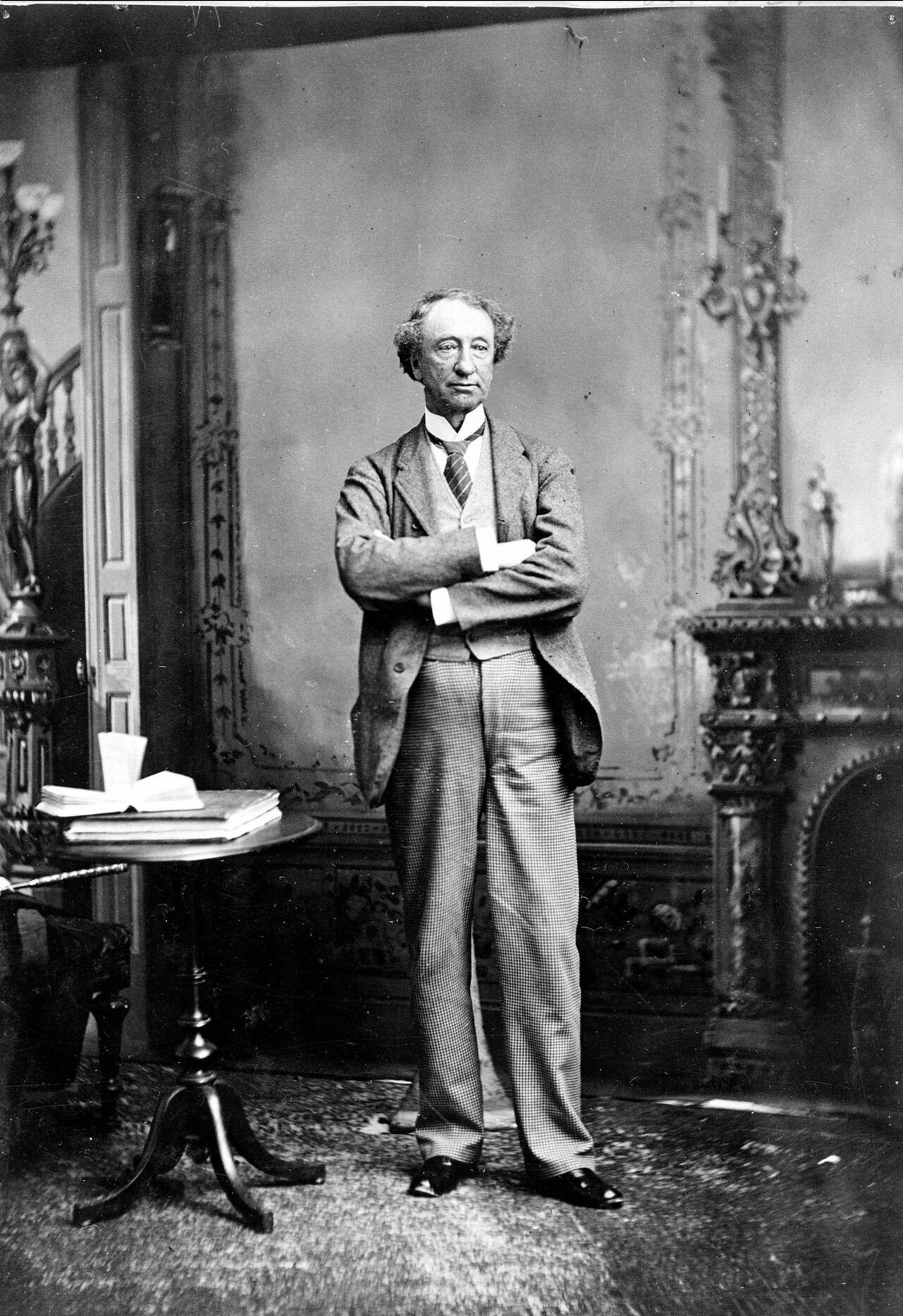 Sir John A. Macdonald